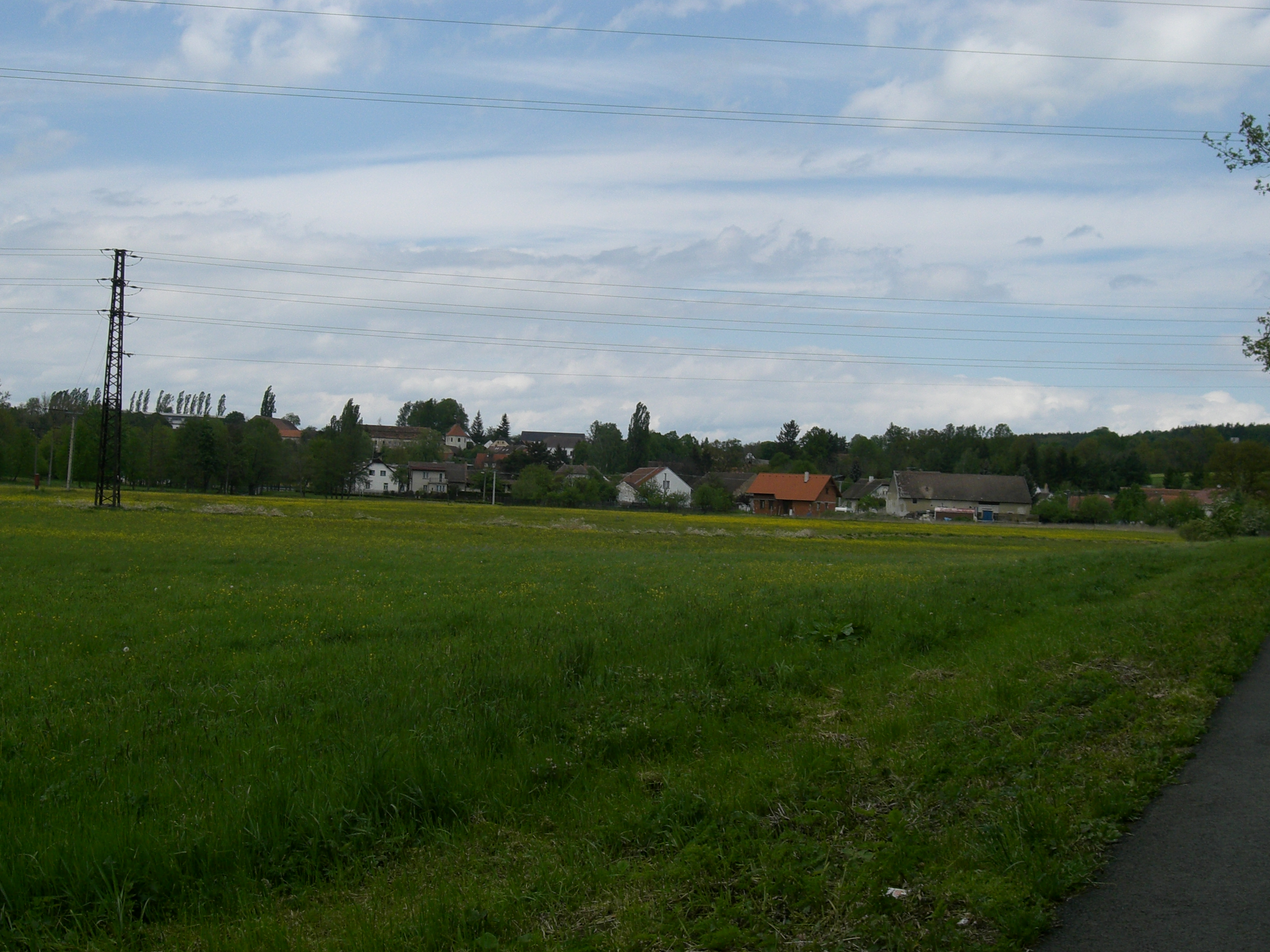 Horosedly village in Písek district, Czech Republic.